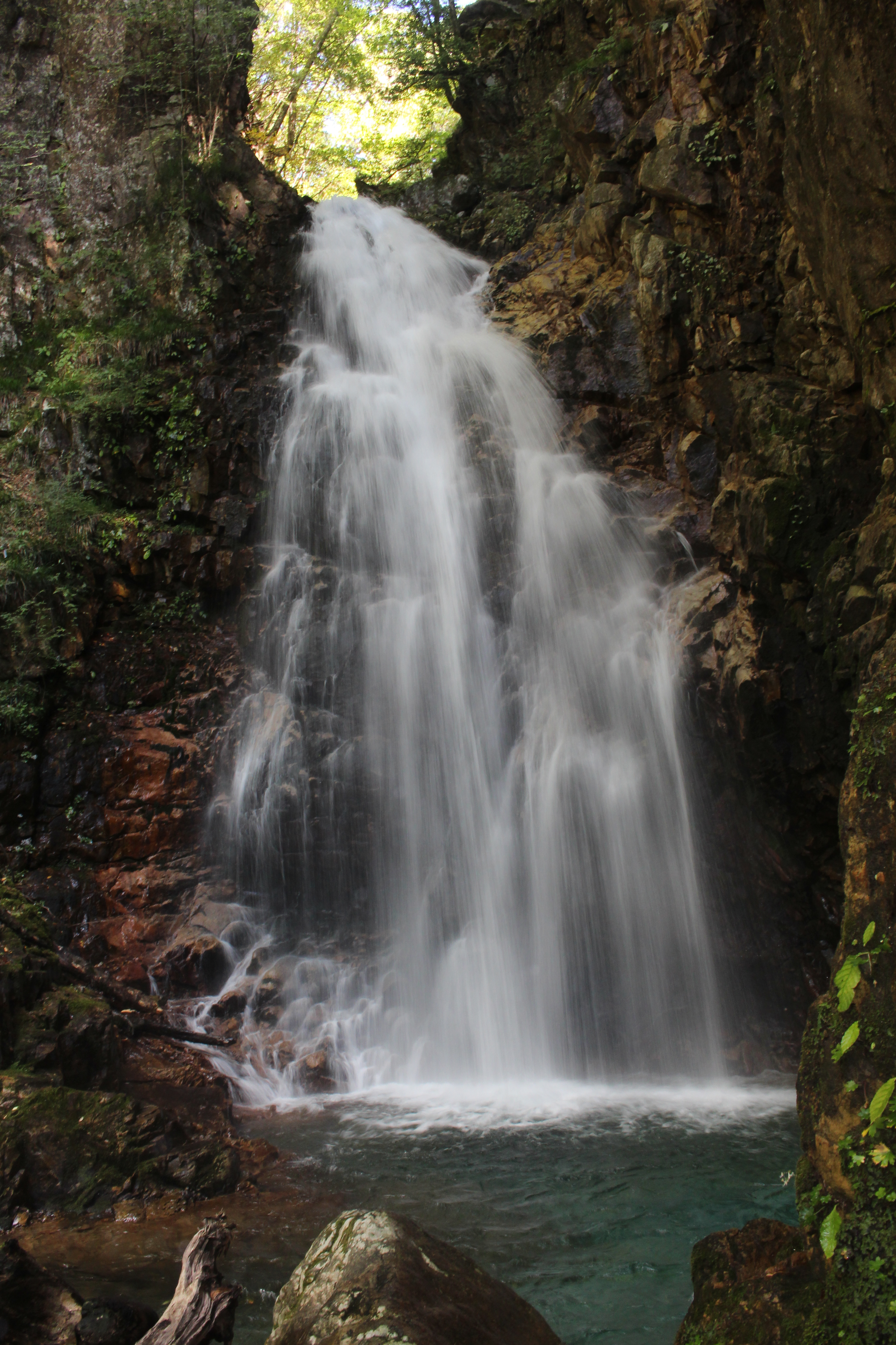 Norimasaōtaki, waterfall, in Gero, Gifu prefecture, Japan.